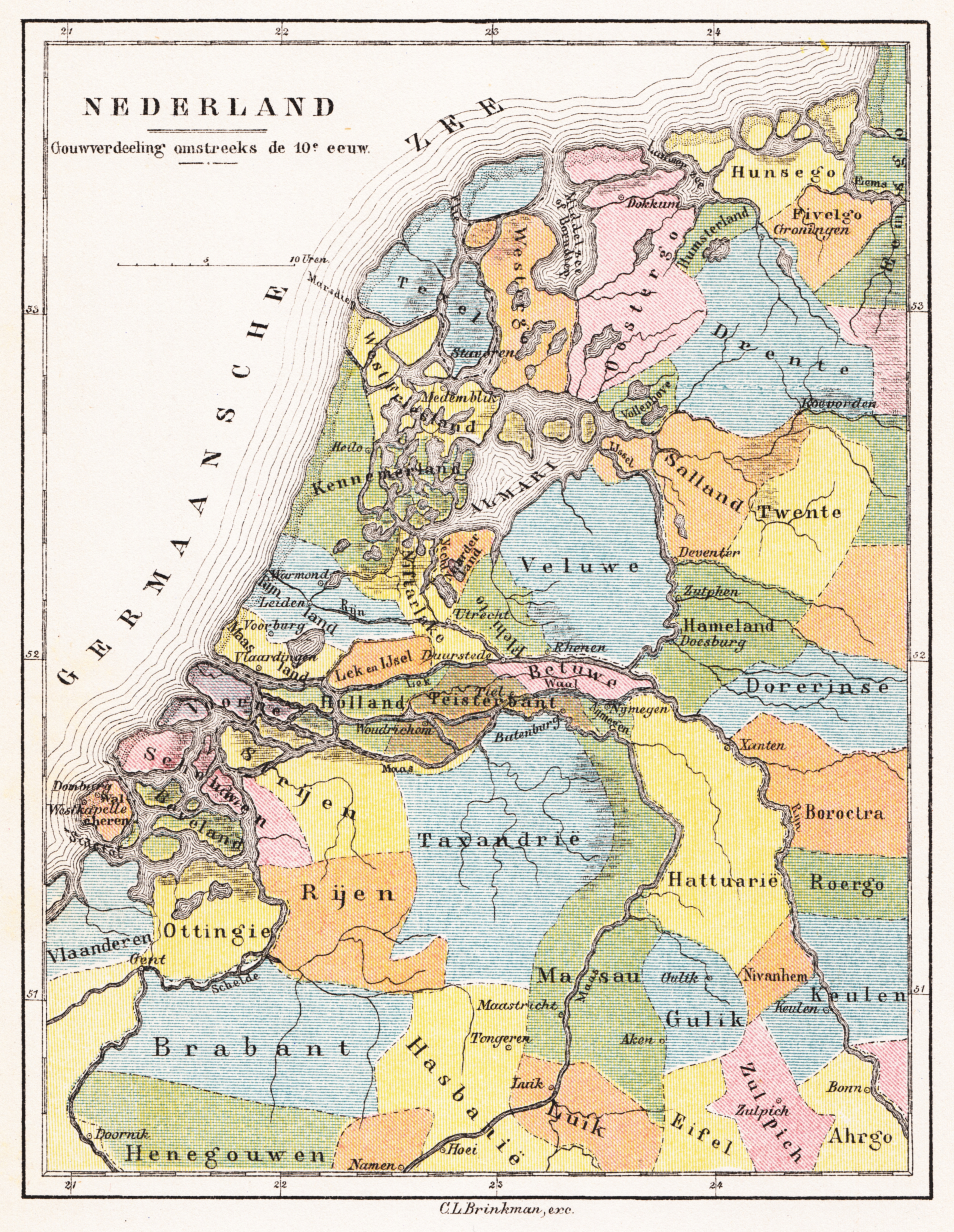 The Netherlands in the 10th century, Map from a historical Atlas published by C.L. Brinkman Amsterdam 1890